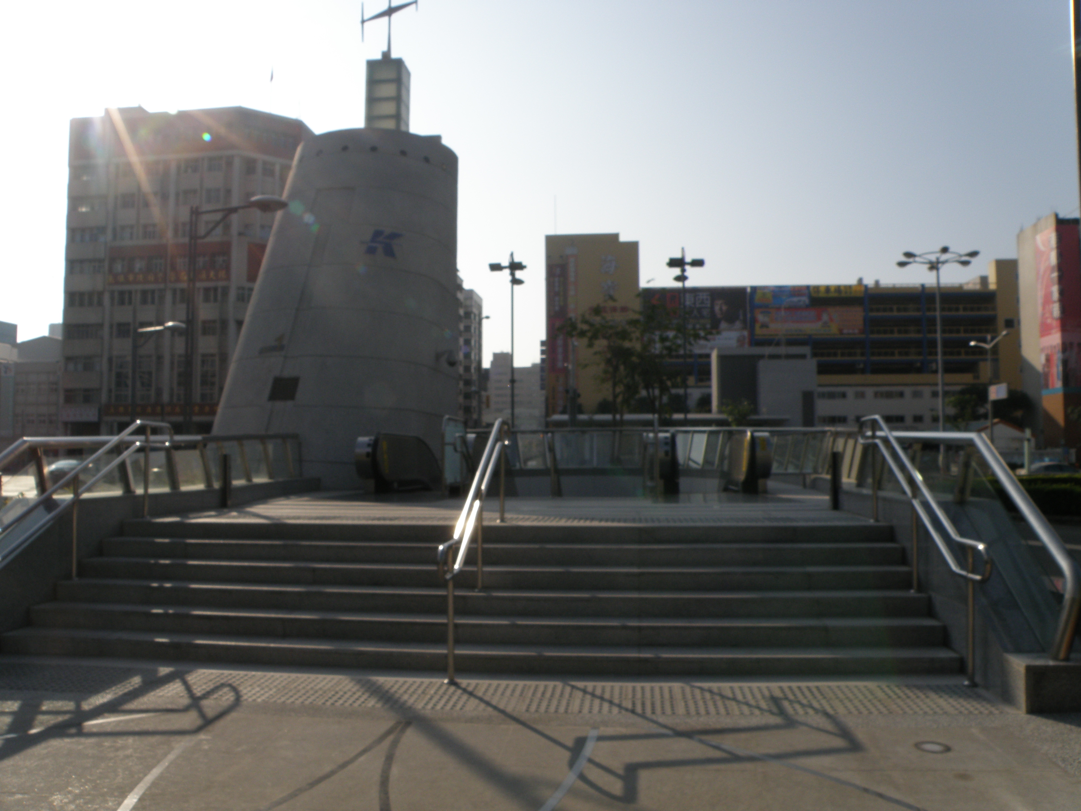 Exit No.1 of City Council Station, Kaohsiung Mass Rapid Transit.